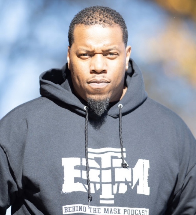 Tutankhamen Reyes 2019. This photo originally came from an overwritten version of File:Tutan Reyes Jan 2018.jpg. To keep File:Tutan Reyes Jan 2018.jpg's filename accurate due to this photo being taken in December of 2019, this photo was extracted and moved to this page, while File:Tutan Reyes Jan 2018.jpg was reverted back to its original photo.